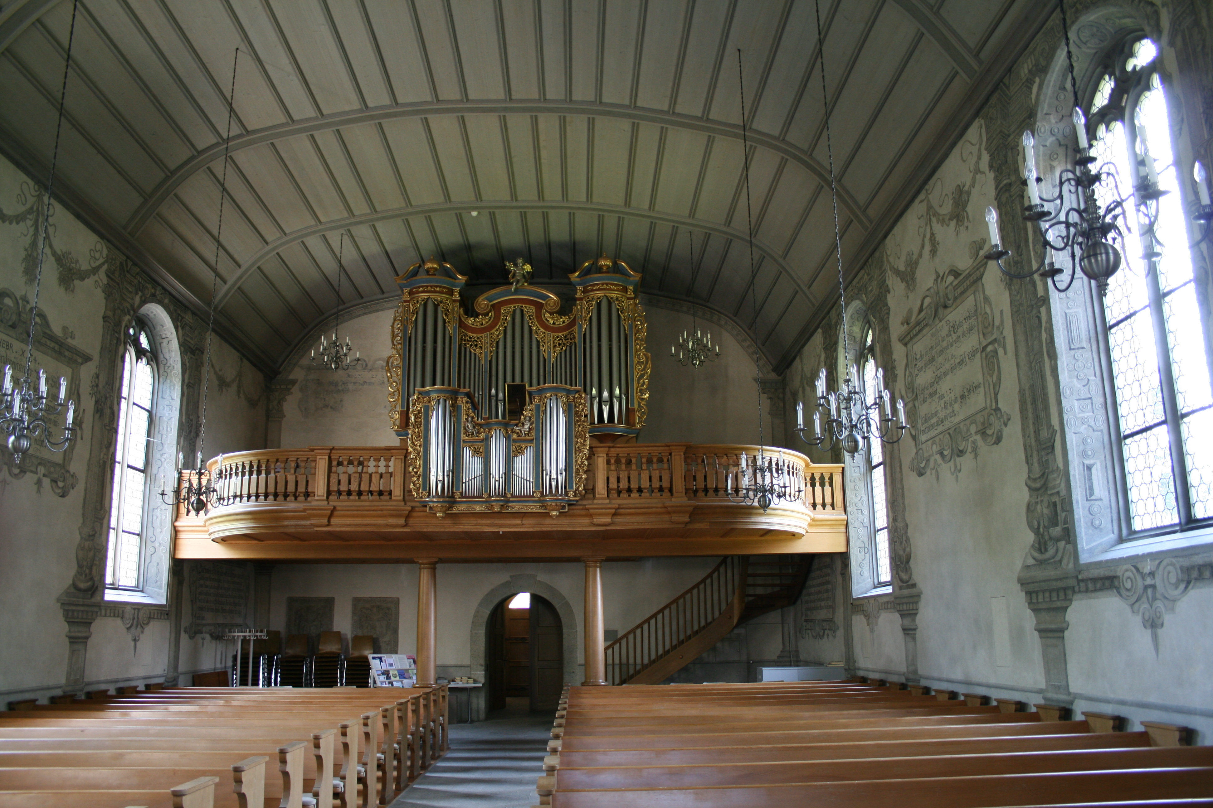 Inside with organ of protestant church in Gränichen, Switzerland